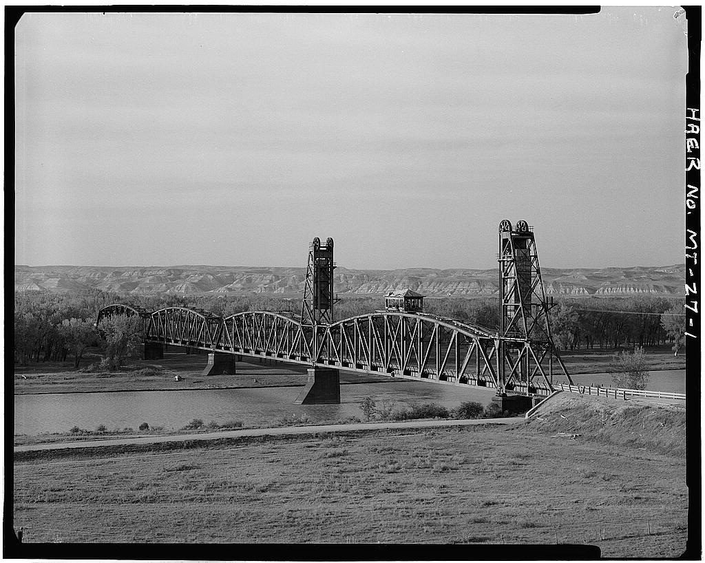 U.S. government B&W photograph of Snowden Bridge, Montana